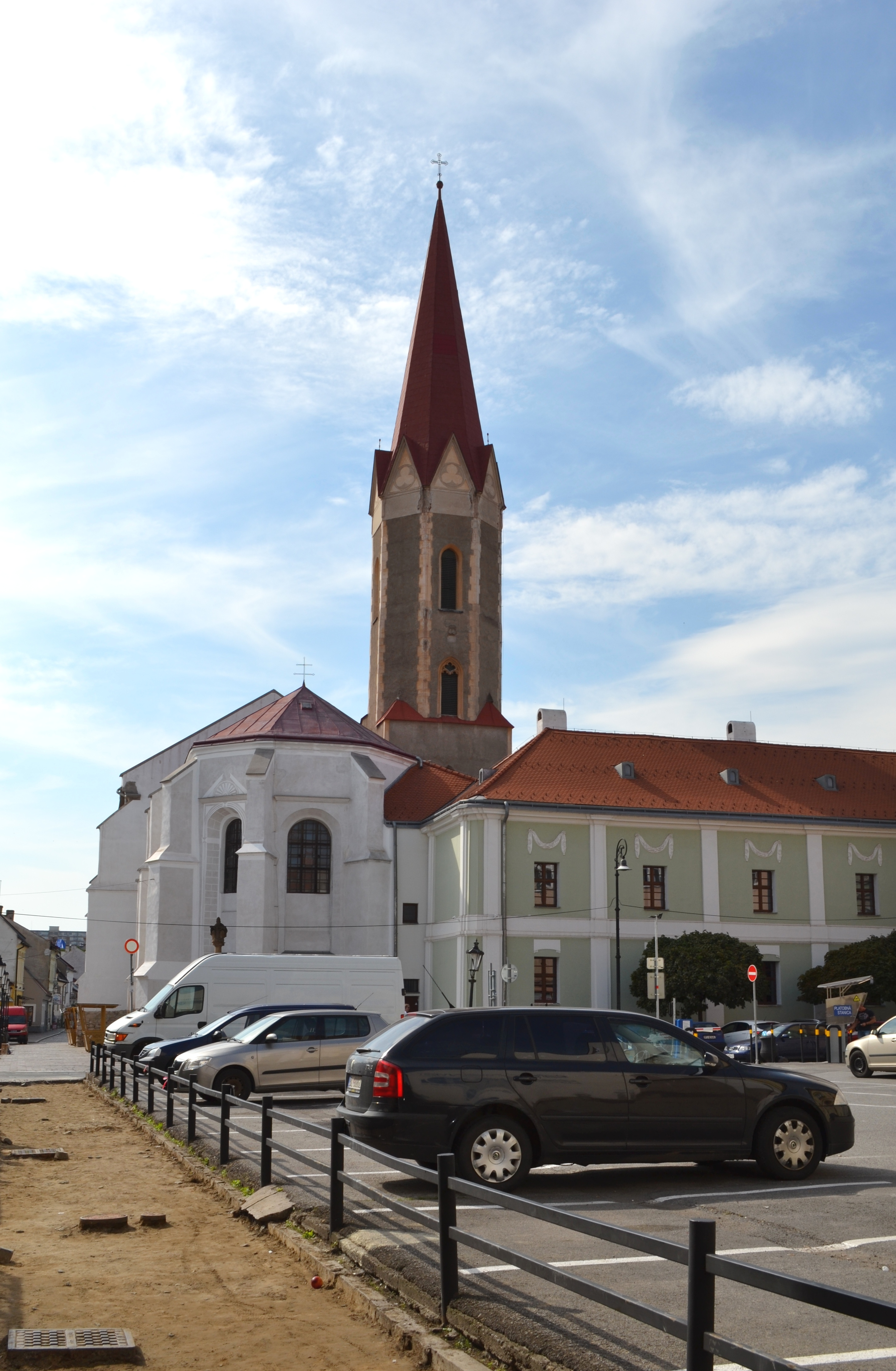 Church of Assumption of the Holy Virgin in Košice